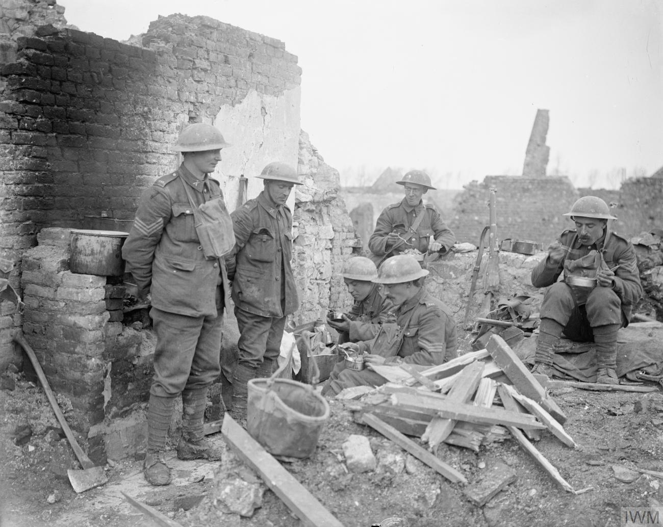 The Battle of Arras, April-may 1917 Troops of the 12th Battalion, King's Own Yorkshire Light Infantry (KOYLI), the pioneer battalion of 31st Division, break for food amdist the ruins of Feuchy, April 1917.